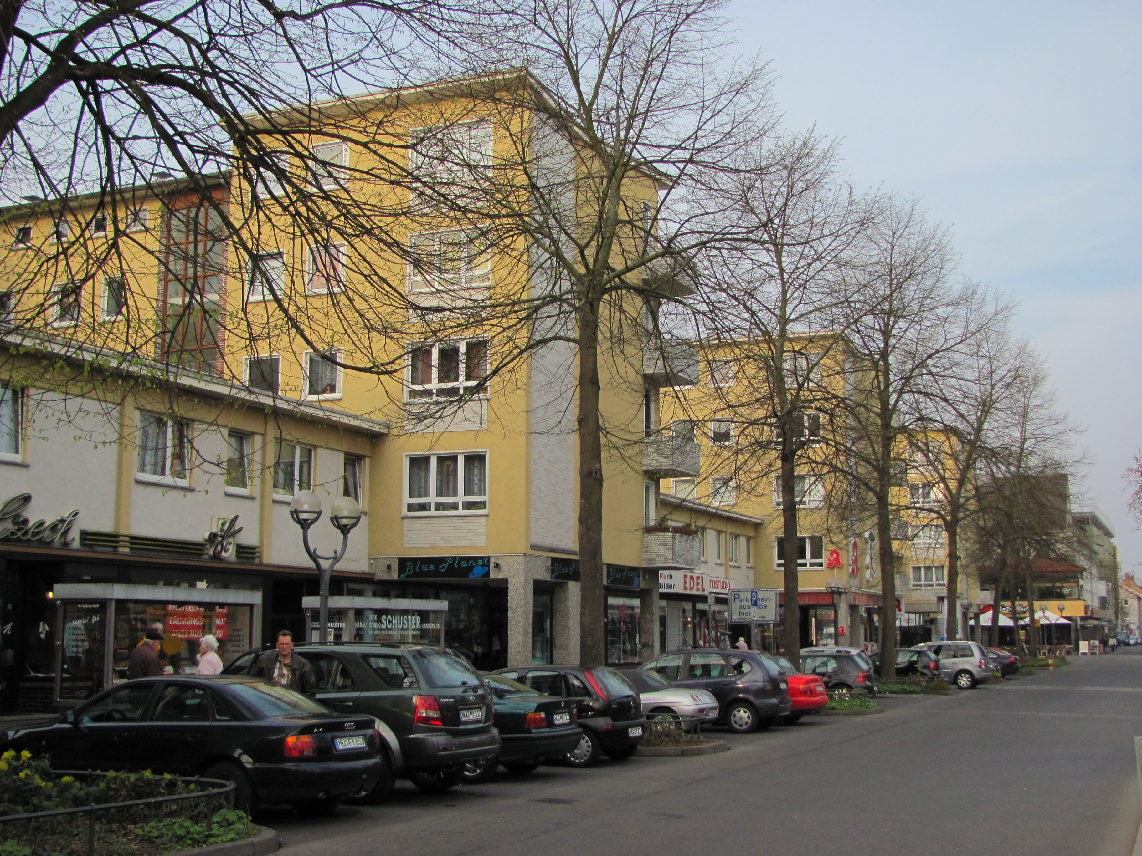 Freiheitsplatz Hanau